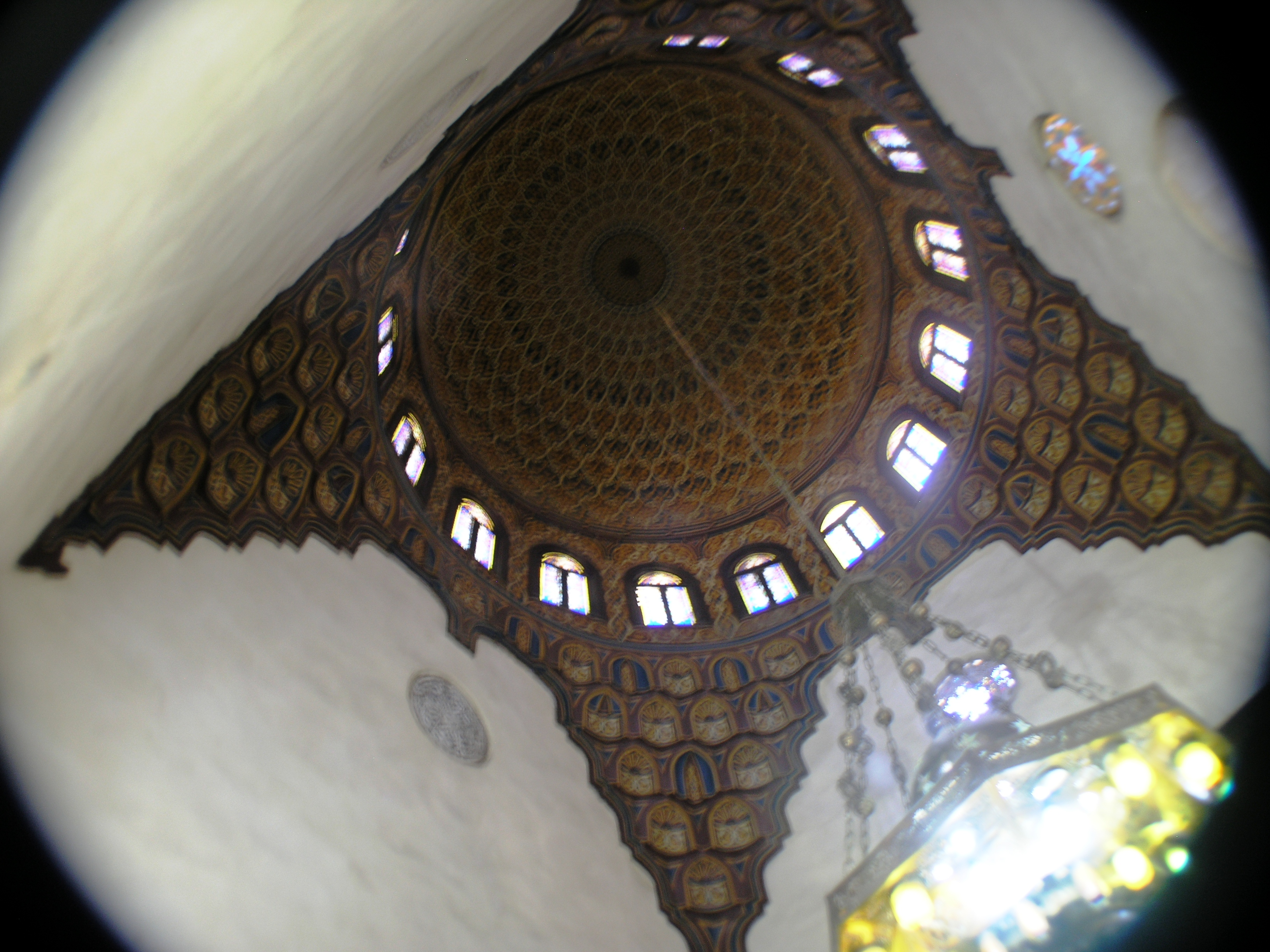 Cairo - Islamic district - Al Azhar Mosque and University - interior of dome